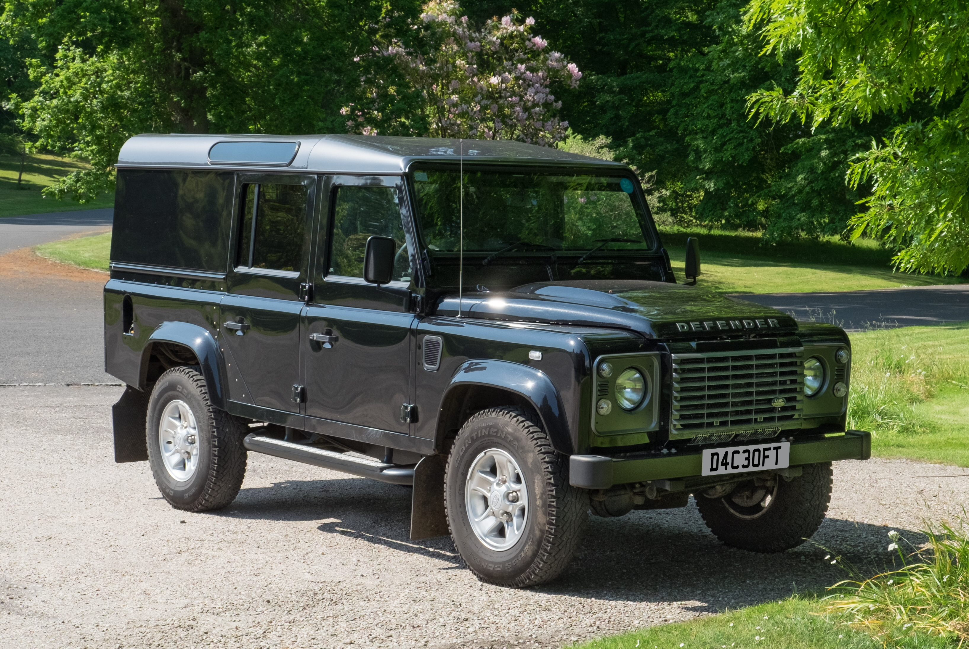 A 2015 Land Rover Defender 110 XS TD DC